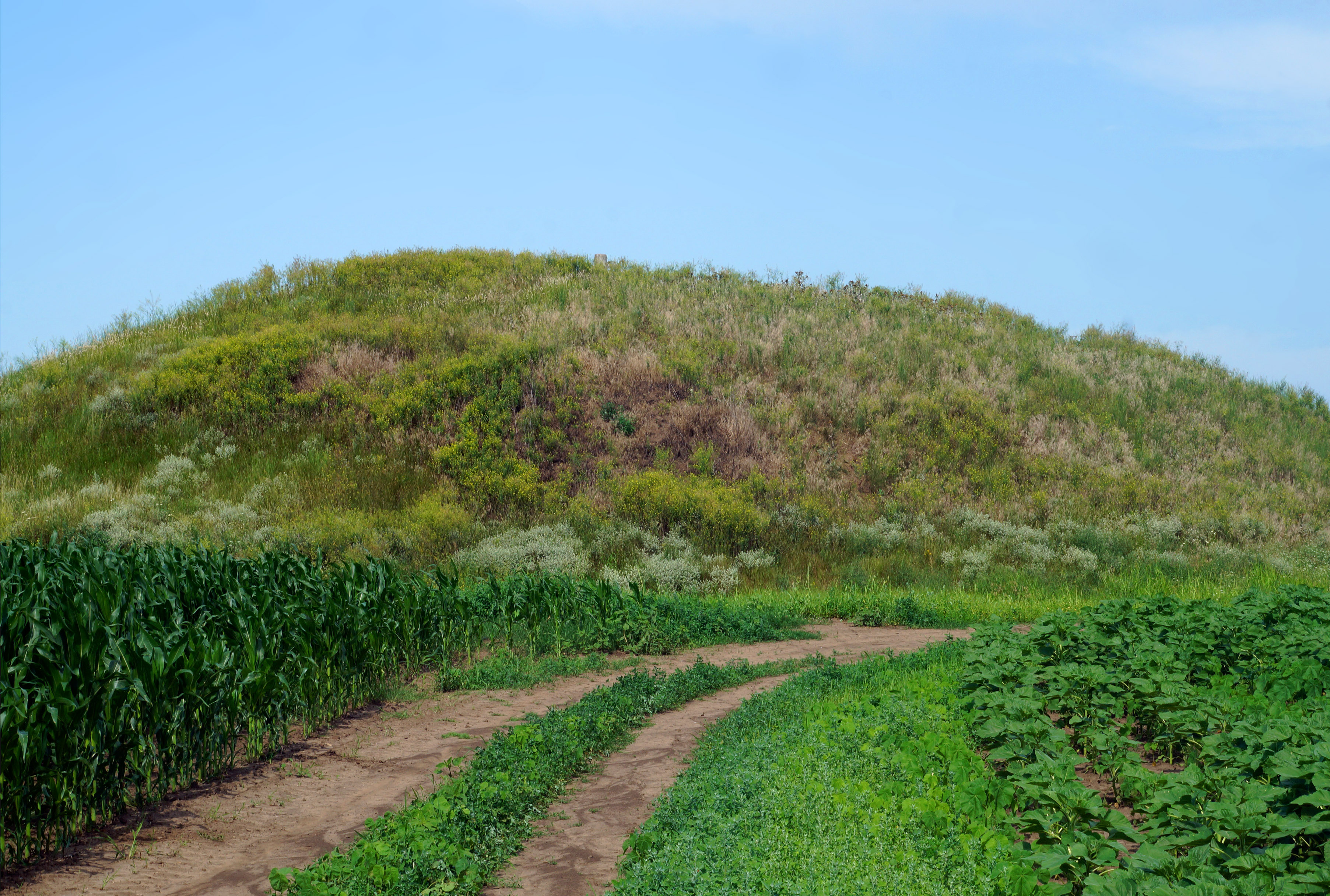 Kurgan Kinđa, Kikinda [BAN151]